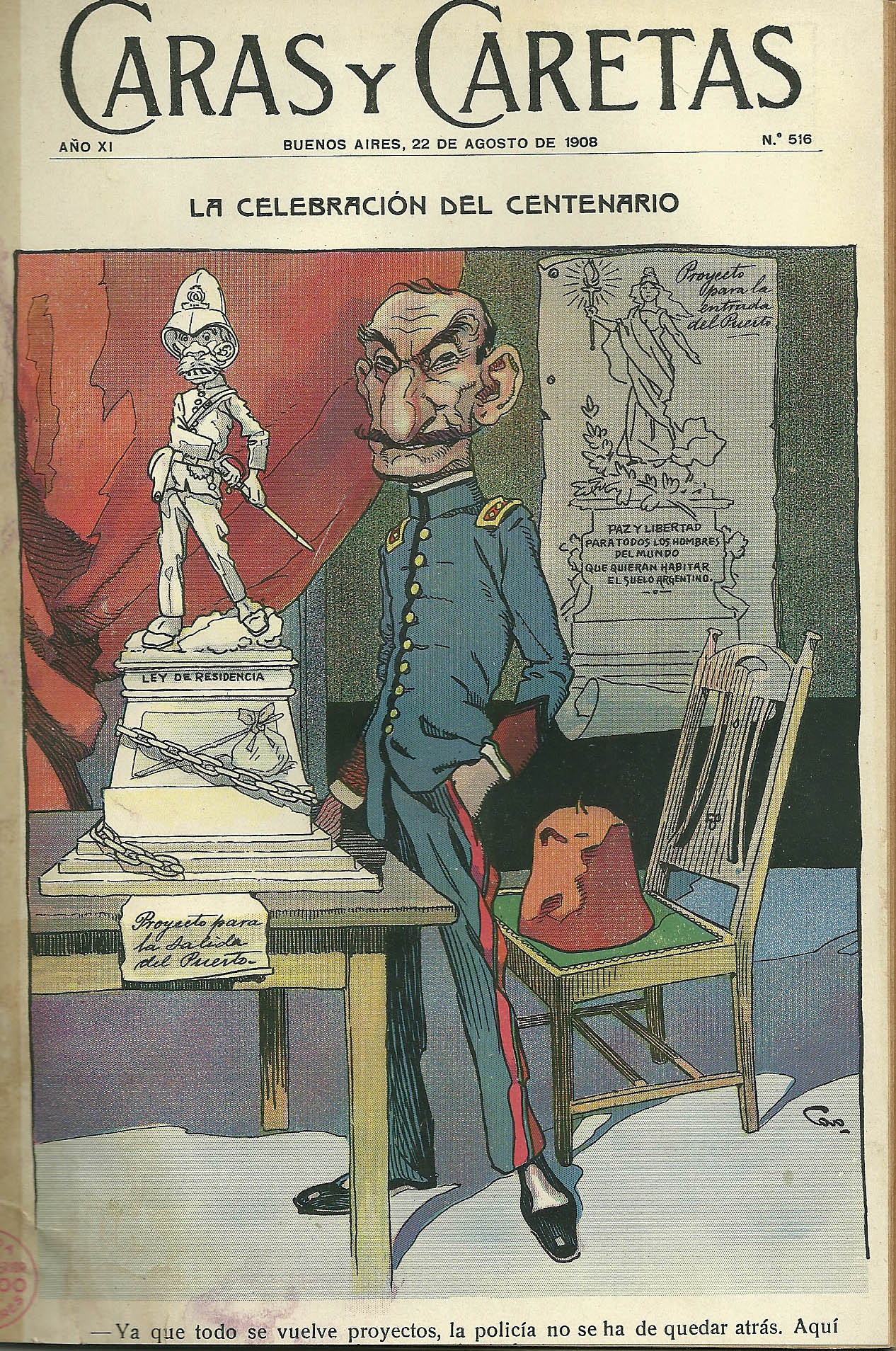 Illustration of Cnel. Ramón Falcón, chief of Argentine Federal Police.